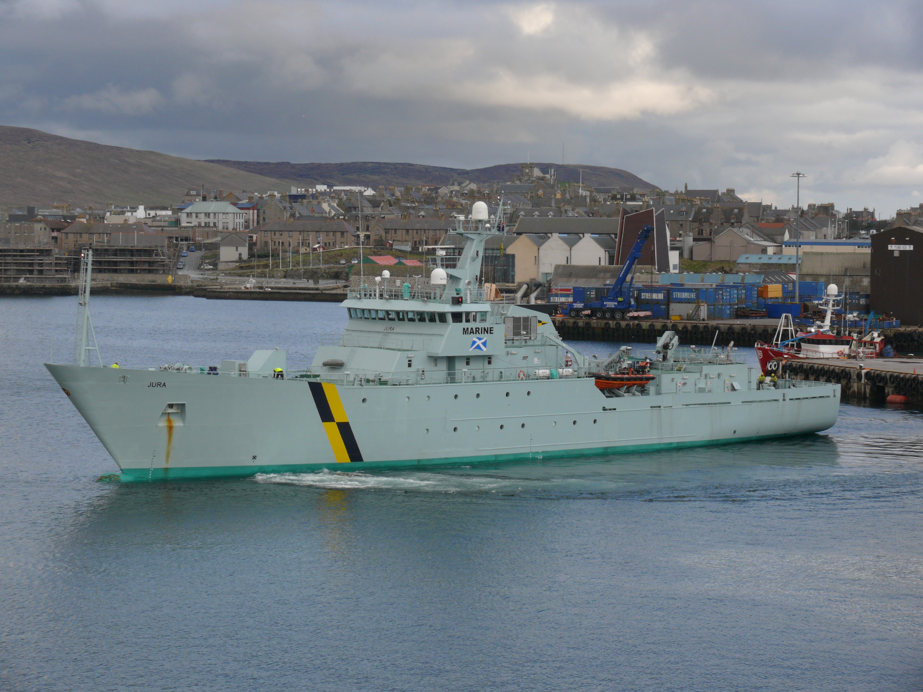 The Fisheries Protection Vessel Jura of the Scottish Fisheries Protection Agency, in Lerwick harbour